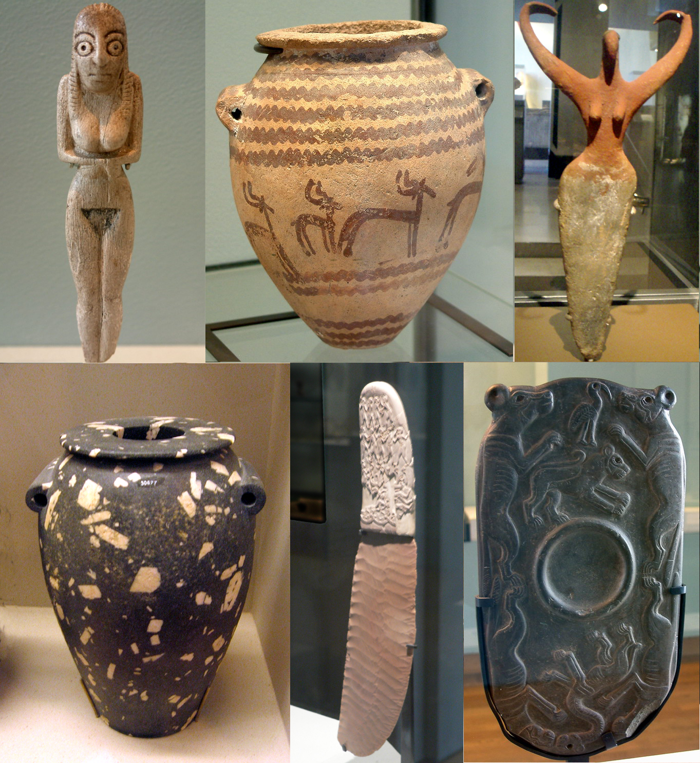 A collage of six predynastic artifacts from ancient Egypt.